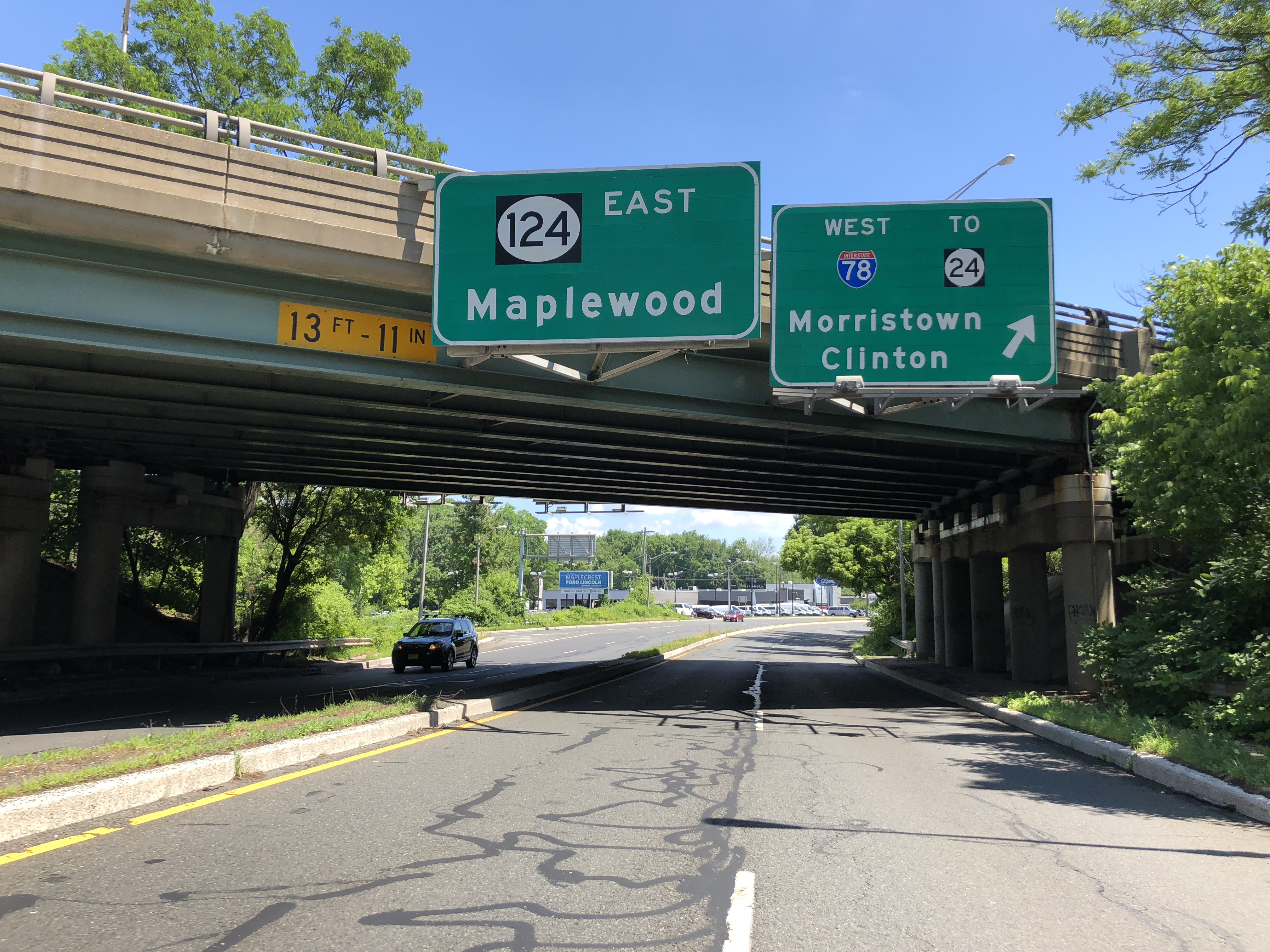 View east along New Jersey State Route 124 (Springfield Avenue) at the exit for Interstate 78 WEST (To New Jersey State Route 24, Morristown, Clinton) in Union Township, Union County, New Jersey